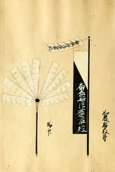 R: Banner (white and black diagonal with white characters Namu MyoHO rengekyO, "Hail the Sublime Lotus Sutra"; same phrase in black letters on white ornament), L: Battle Standard (white nine-pole baren, or clipped tassel cloth)